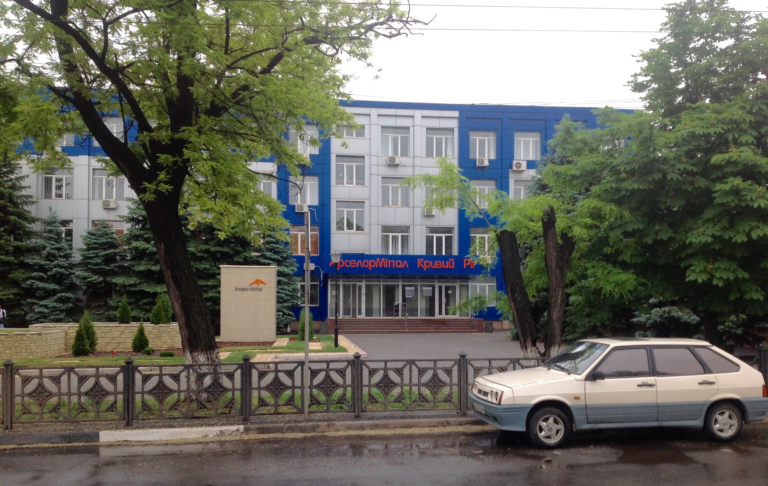 ArcelorMittal Kryvyi Rih